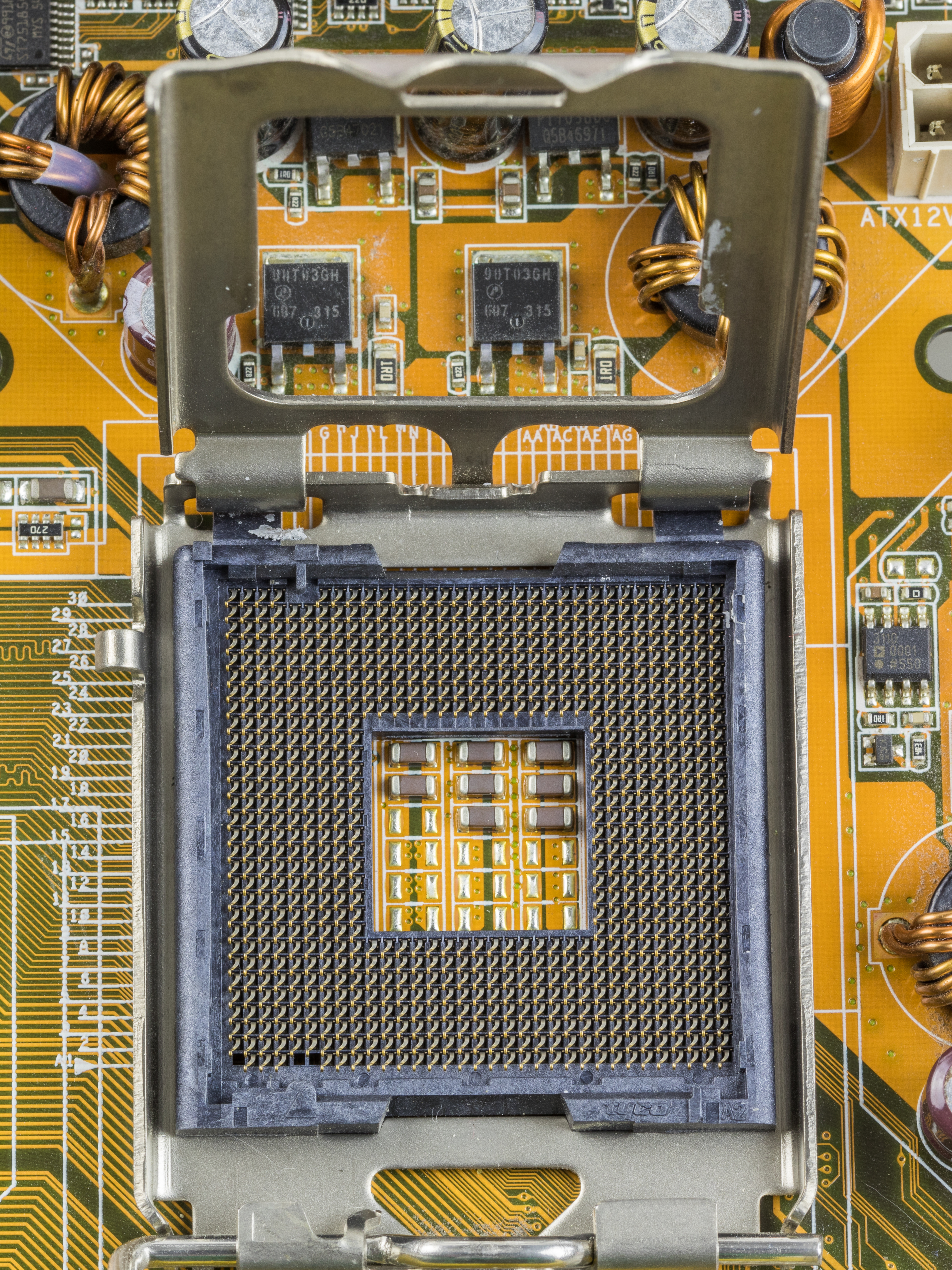 Asus P5PL2 - Socket 775